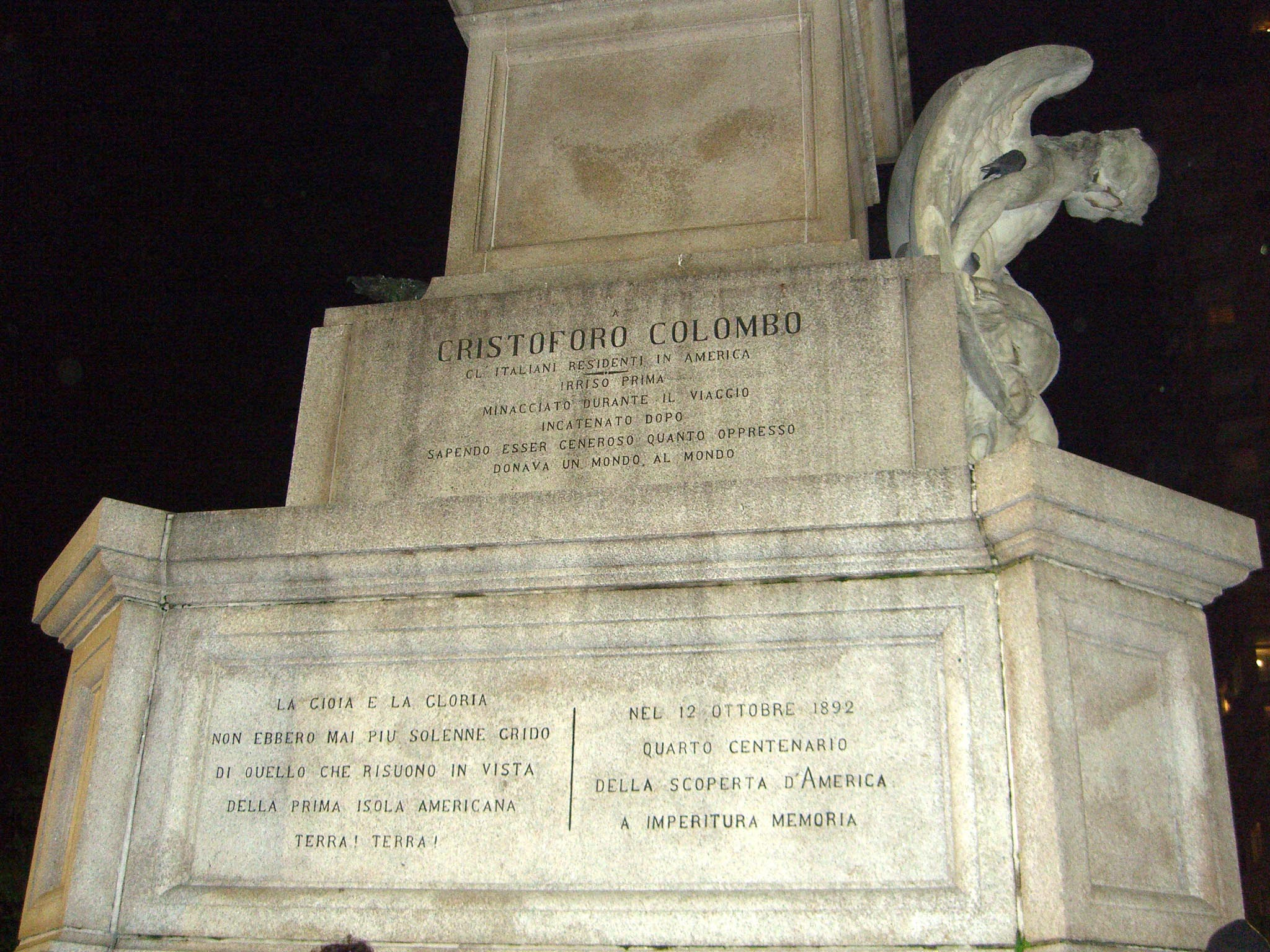 Closeup of the Columbus Monument at Columbus Circle in Manhattan, photographed on the evening of April 28, 2011. Photographed by Luigi Novi. This photo is not in the public domain. It may, however, be used, modified and published for any purpose, free of charge, only if the photographer is properly credited, either by linking the photograph to this page, or with an easily visible credit to the photographer placed near the photo in each instance in which it is used. (See licensing information below.) Publication of this photo without this proper attribution constitutes copyright infringement. If you have any questions, you can contact me on my Wikipedia Talk Page.